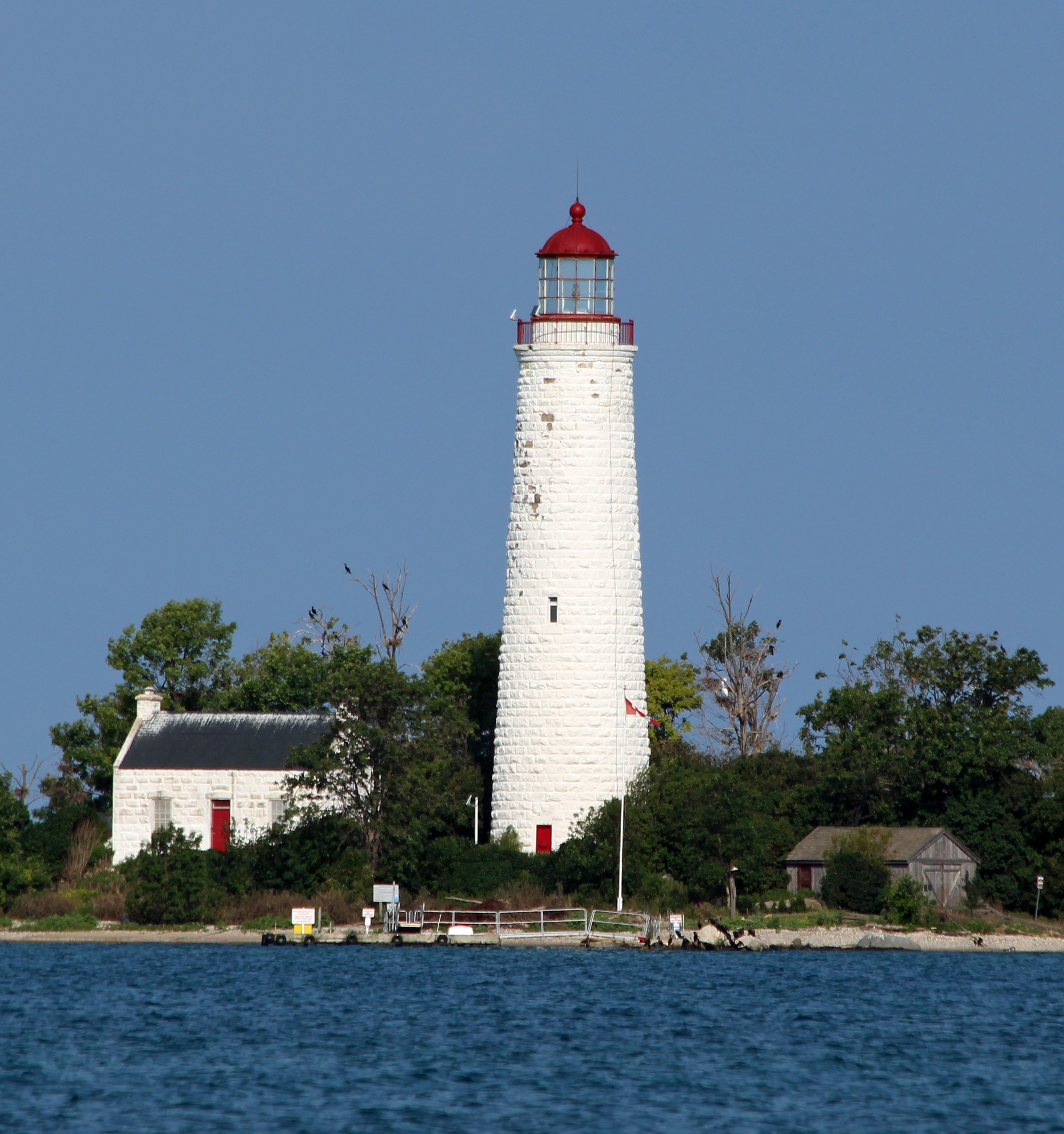 Lightkeeper's Dwelling, Lighthouse and Shed